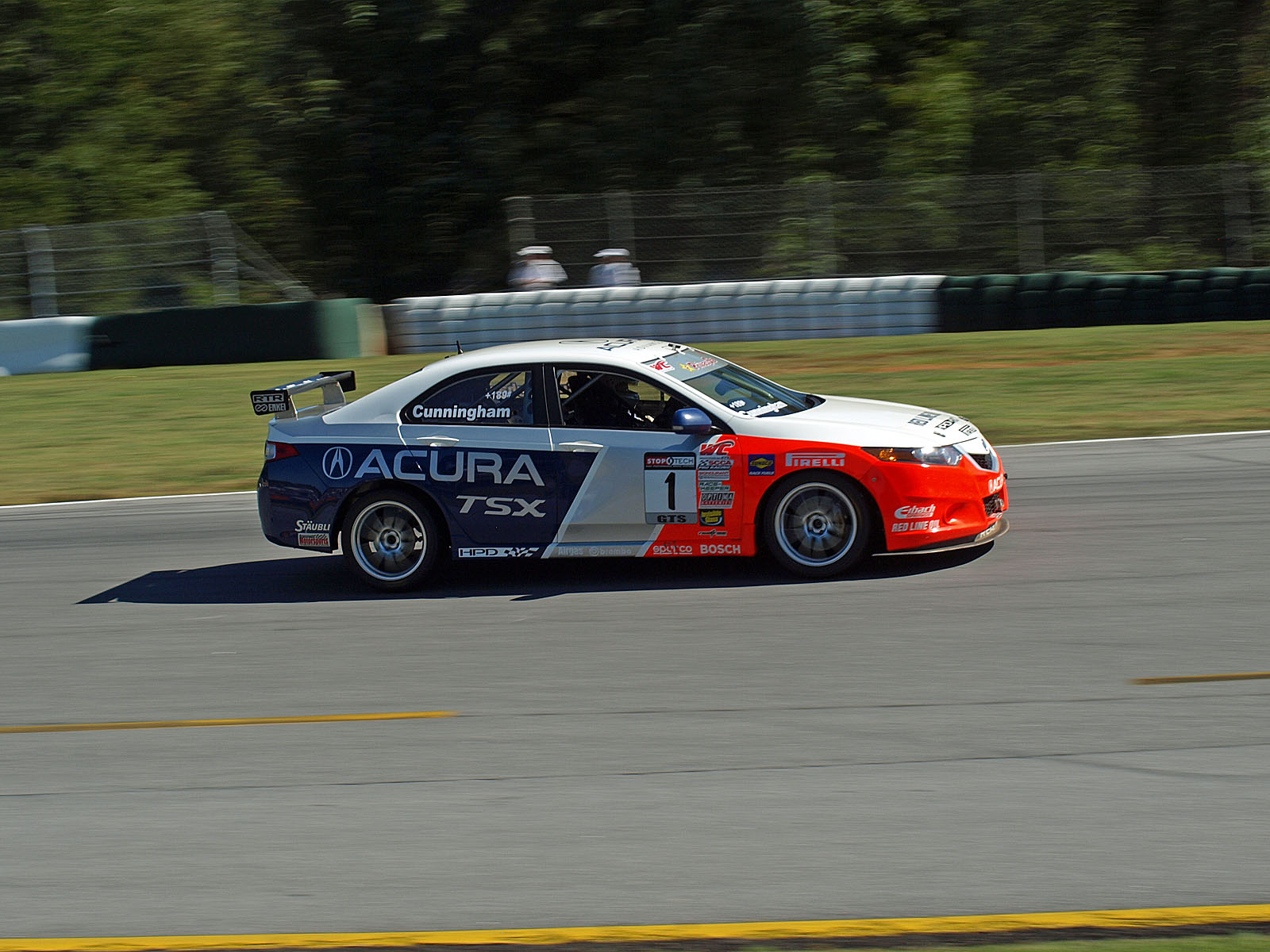 Peter Cunningham's GTS-class Acura TSX during the Pirelli World Challenge race at the 2011 Petit Le Mans weekend at Road Atlanta.